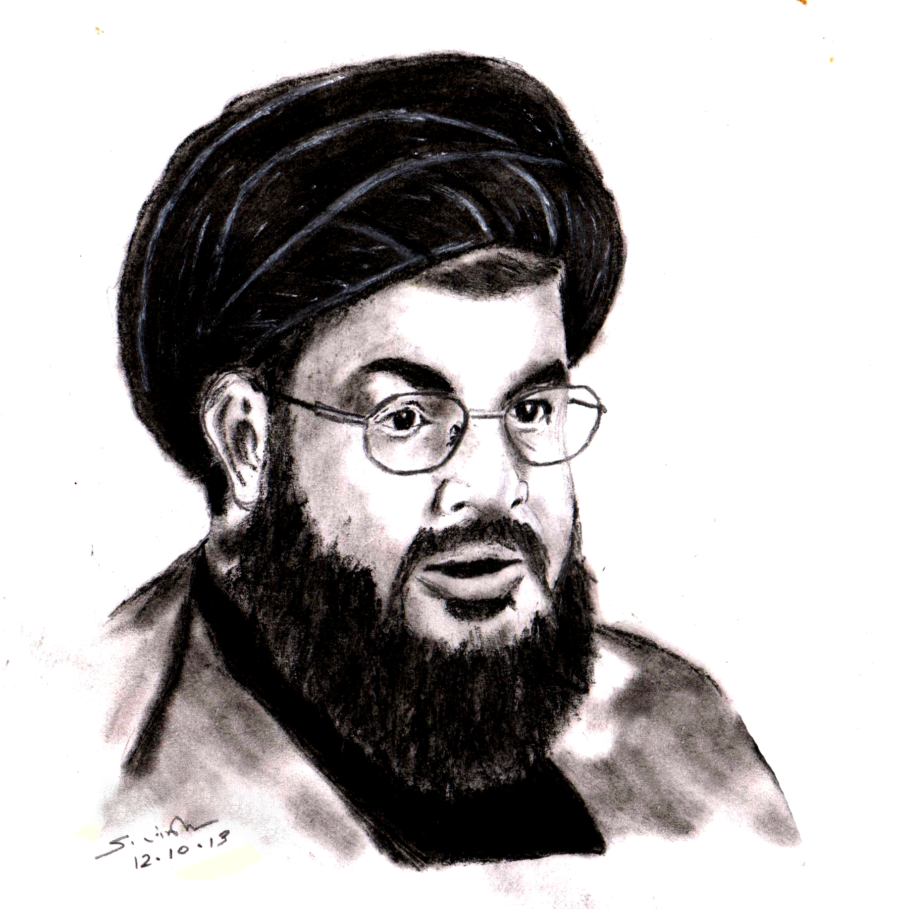 Hezbollah leader, Sayyid Hassan Nasrallah.d